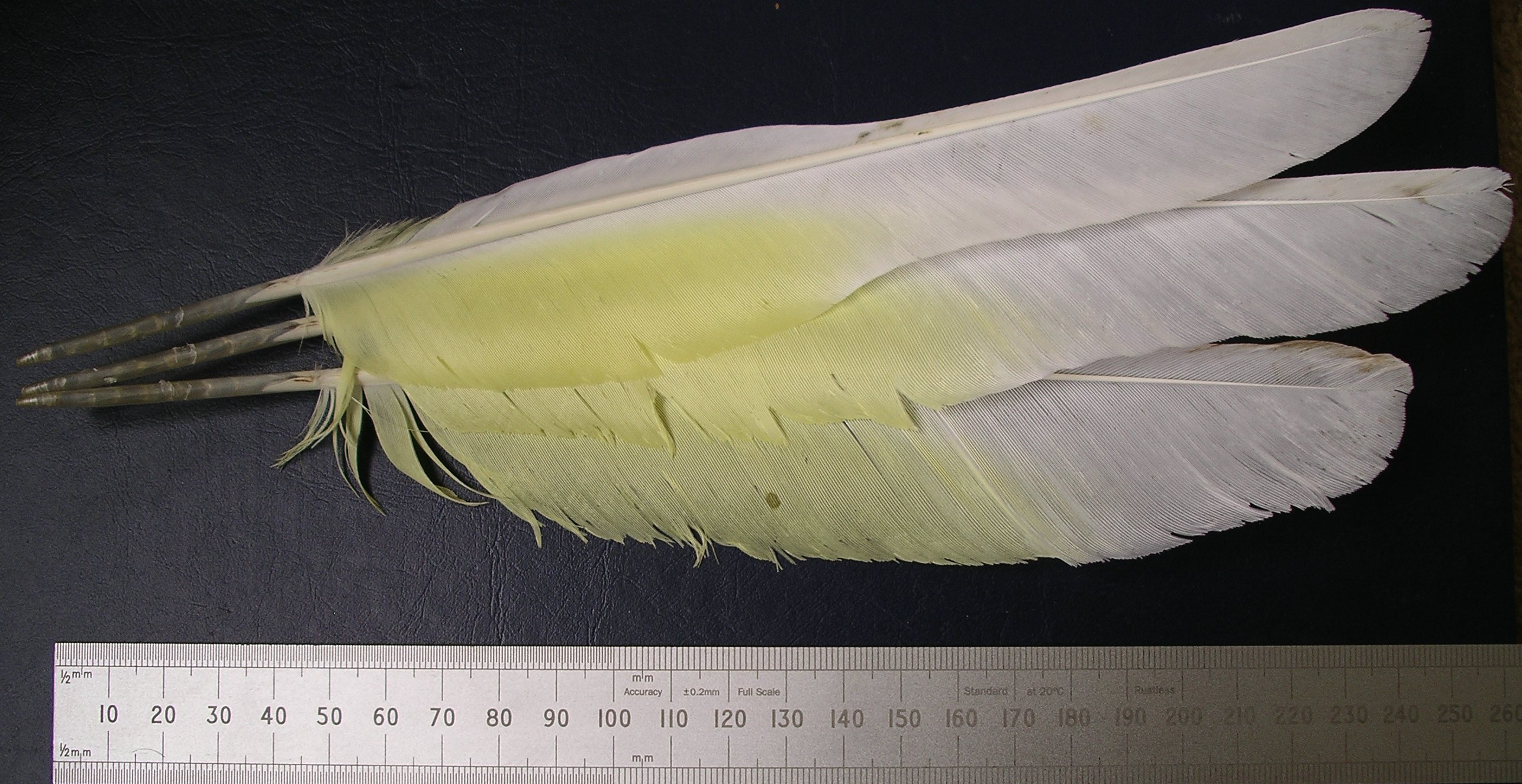 Photo taken by me to show the colouration of the feathers. This photo is the same as the previous one but it is now cropped. Phote of the large wing feathers from an Umbrella cockatoo. The feathers were naturally shed from the parrot - it did not suffer any pain. The feathers were found at the bottom of its cage.